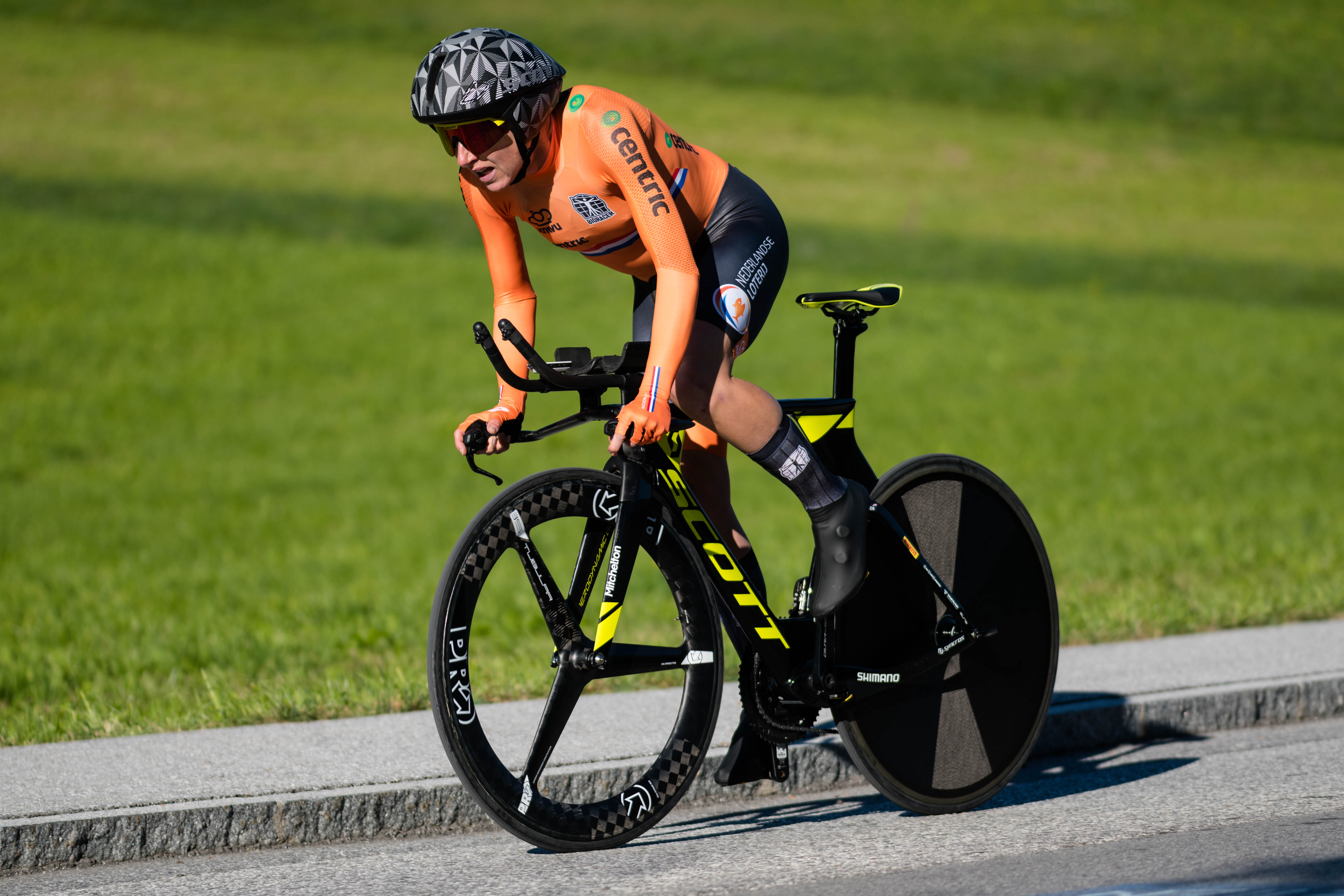 2018 UCI Road World Championships Innsbruck/Tirol Women Elite Individual Time Trial. Picture shows: Annemiek van Vleuten of the Netherlands